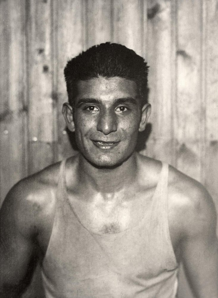 Victor Avendano from Argentina, winner of Olympic Games 1928, boxing light heavy weight